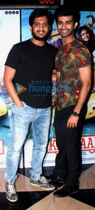 Amey Wagh (left) at special screening of 'Karwaan'